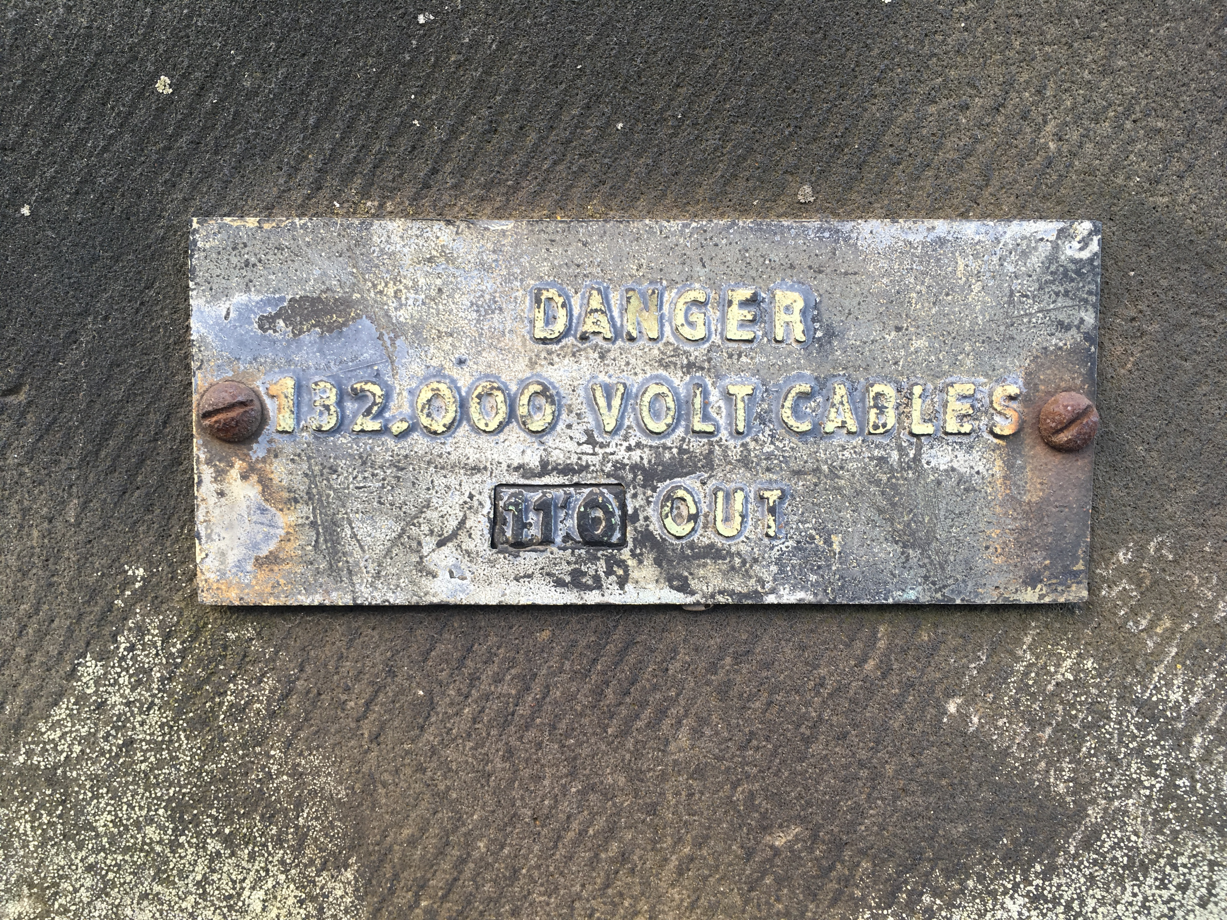 Original gate from site of Portobello Power Station